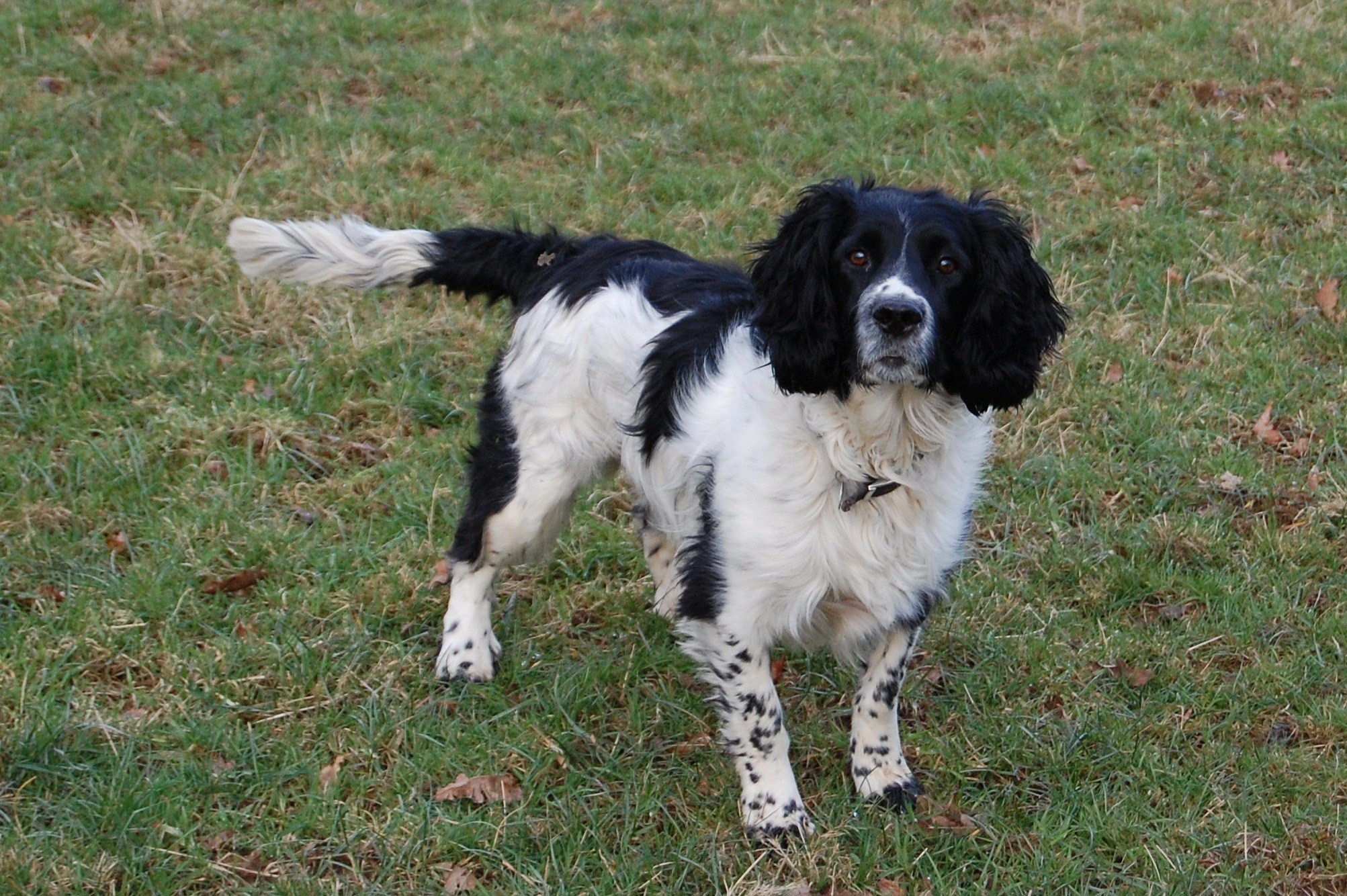 my black and white english springer, "Sprog" (second photo)